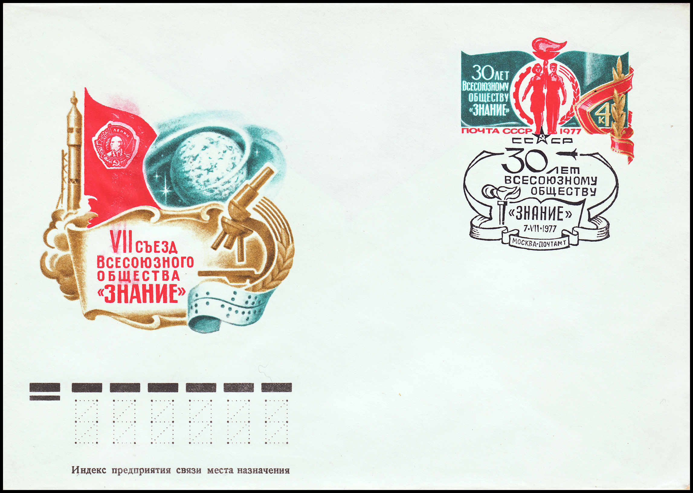 USSR, 1977. Labeled Envelope with commemorative stamp. "30th anniversary of the All-Union Society "Znanie" - "VII Congress of the All-Union Society "Znanie" (Catalogue" Standard -Collection " №29). Stamp: A girl and a young man with a torch in the background of an open book. Illustration: attributes of education - microscope, punched tape, the start of the spacecraft on a background of the globe; red flag with the Order of Lenin. Painter Y. Bronferbrener. Special cancellations: "30th anniversary of the All-Union Society "Znanie", 07.07.1977, Moscow, Central Post Office.